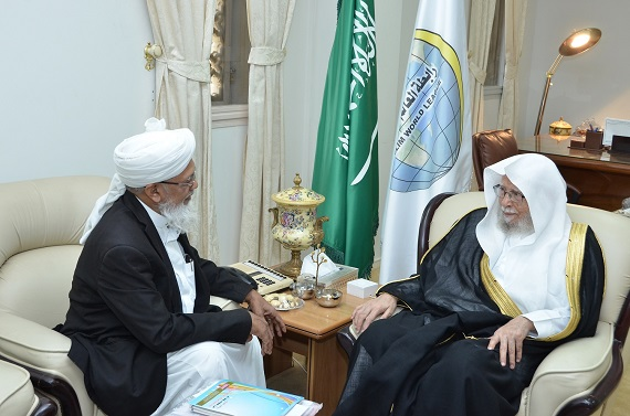 Prof.K Alikkutty Musliyar with Abdallah Ben Abdel Mohsen At-Turki